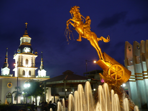 A really nice place